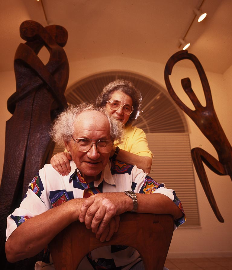 Rachel was the woman for him, he decided in 1938 when he fell in love with the skinny and petite firecracker who dreamt of becoming an architect and was admitted to the university, but the WW II German Blitzkrieg bombs fell on Warsaw the morning she was set to start school. Instead, she and her family had to flee.